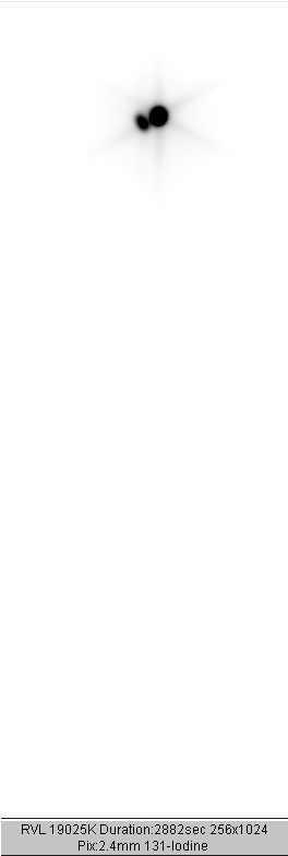 Whole-body-scan after 1st therapy of thyroid cancer with 3.7 GBq Iodine-131.